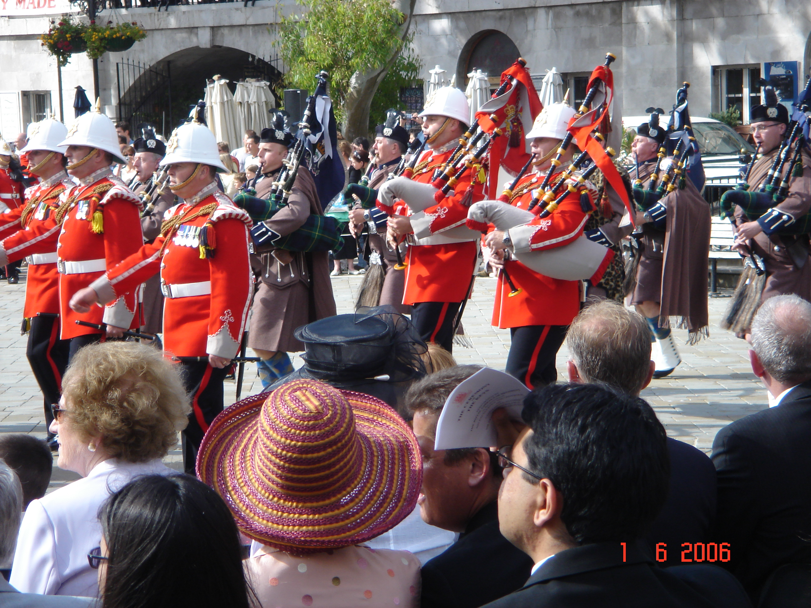 Pipers from the bands of the Royal Gibraltar Regiment and the London Regiment during the Queen's birthday parade in Casemates Square, Gibraltar